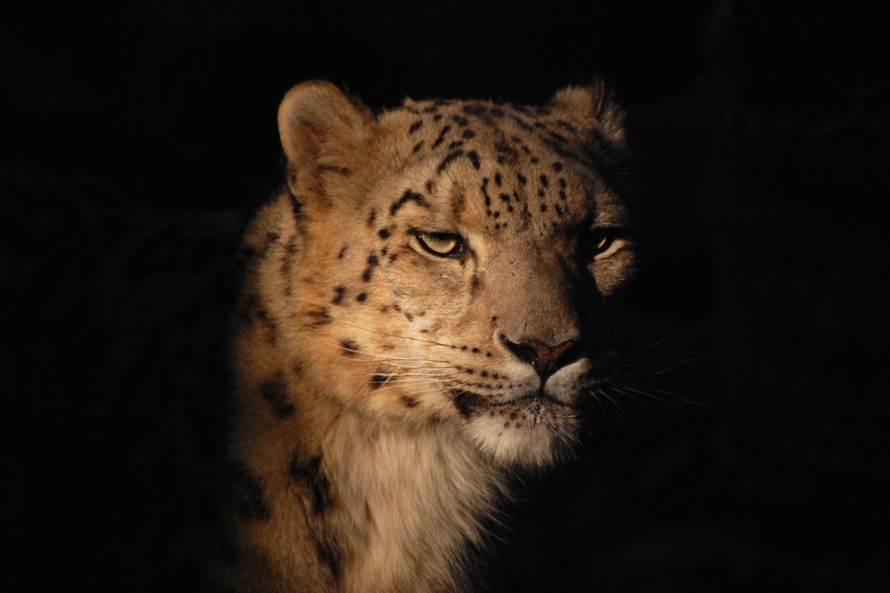 A Snow Leopard at the Toronto Zoo.